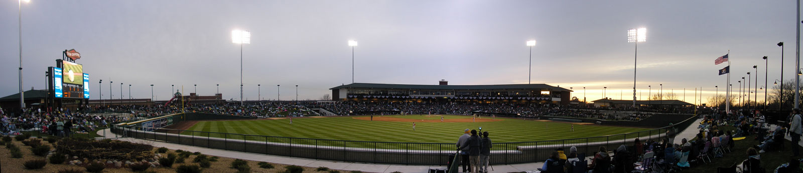 Low-resolution panorama of the Dow Diamond ballpark in Midland, United States on April 14, 2007.